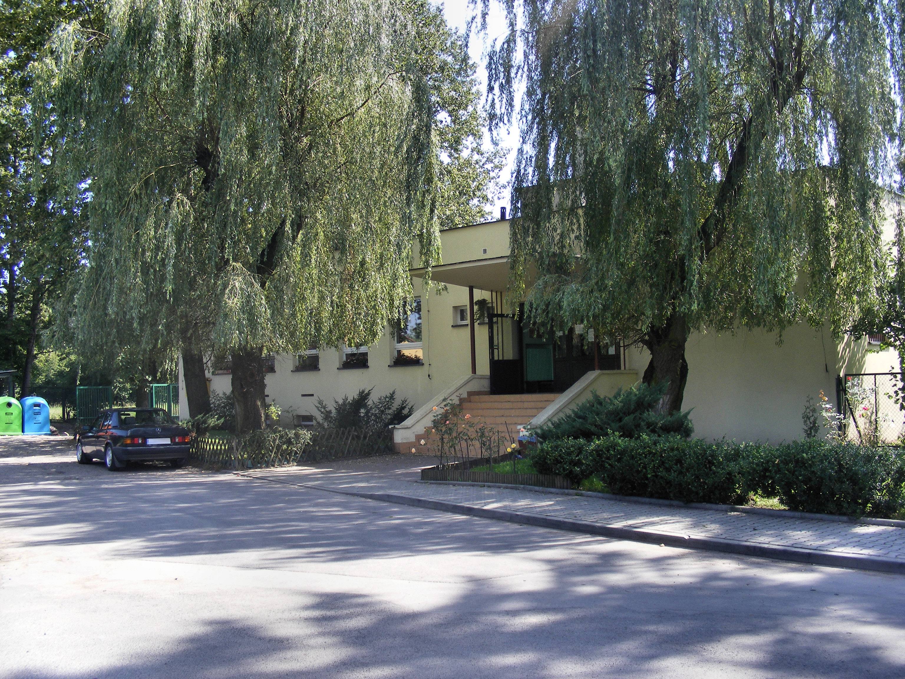 Primary school in Tonie